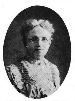 Emeline Stanley Aldrich Burlingame Cheney